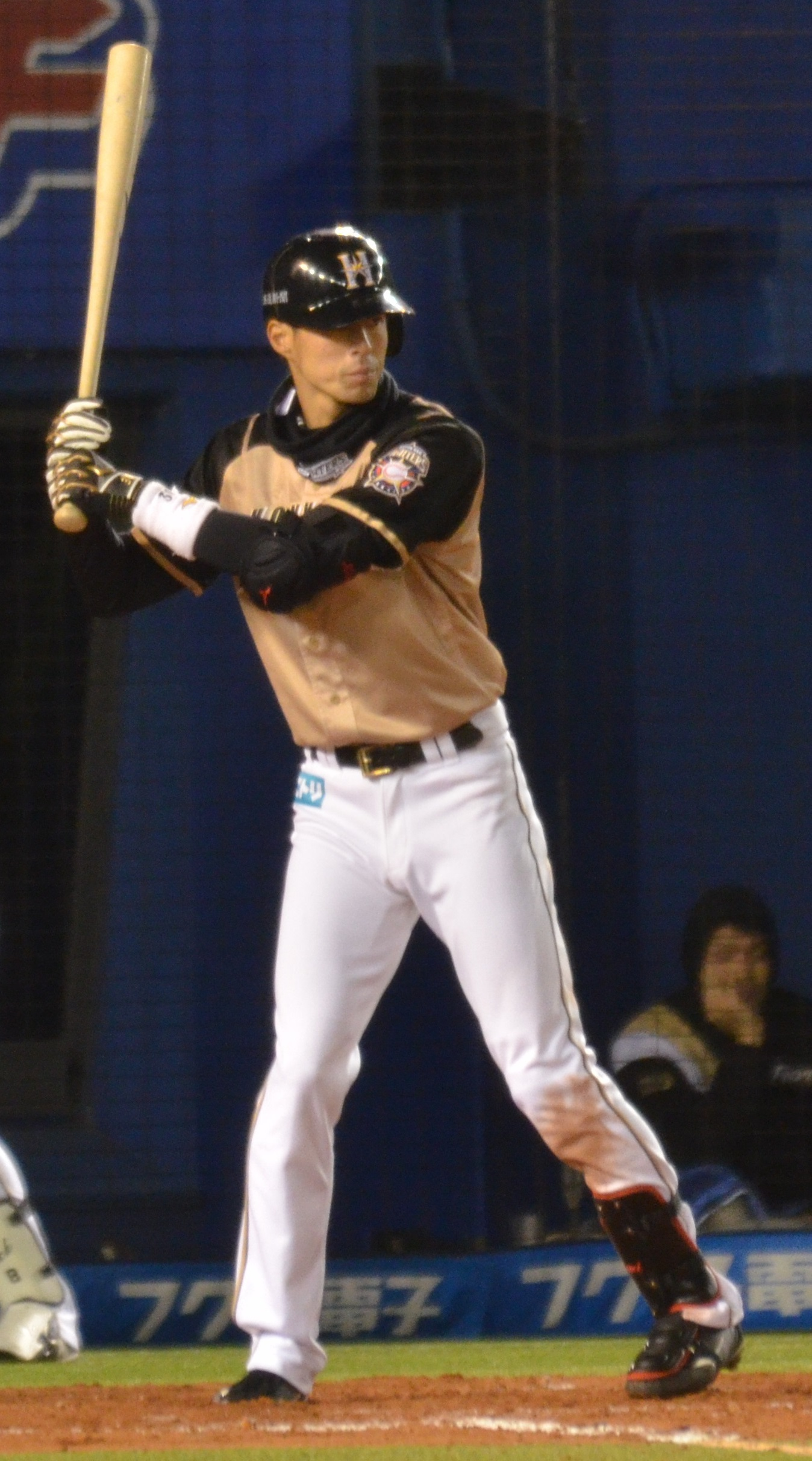 Hiromi Oka, outfielder of the Hokkaido Nippon-Ham Fighters, at Chiba Marine Stadium.